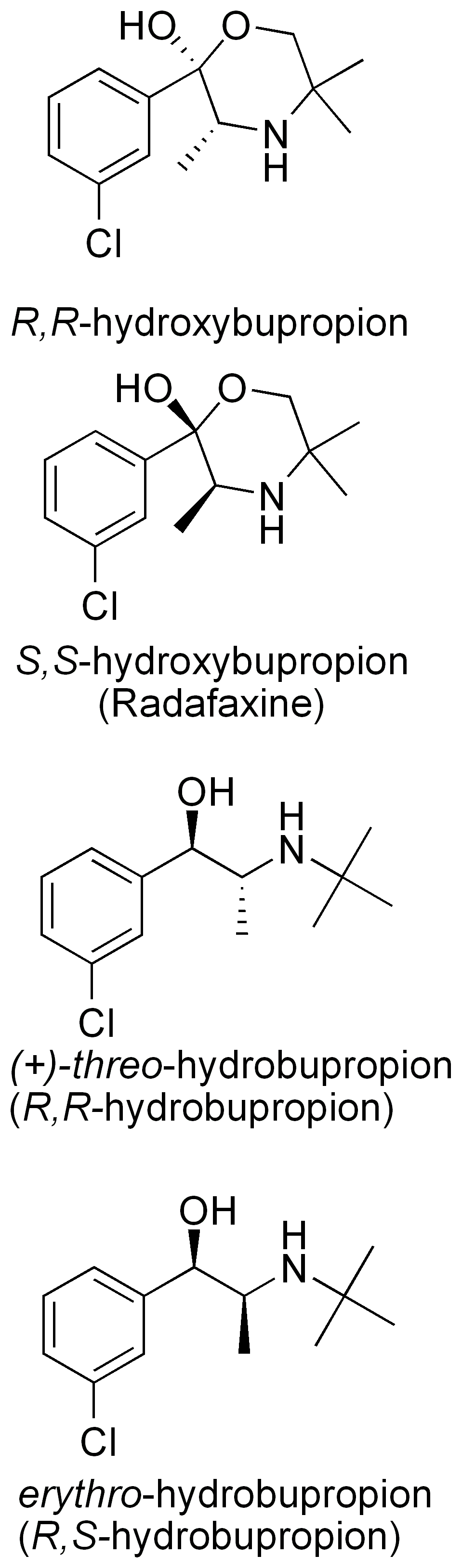 Metabolites of the drug Bupropion. Chemical drawing by Dr. Cash using ChemDraw Ultra 7.0.1.